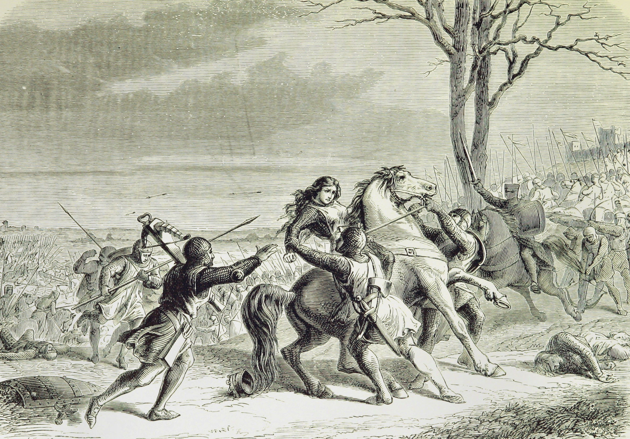 Nicolaas Zannekin taken prisoner at the Battle of Cassel (23 August 1328)